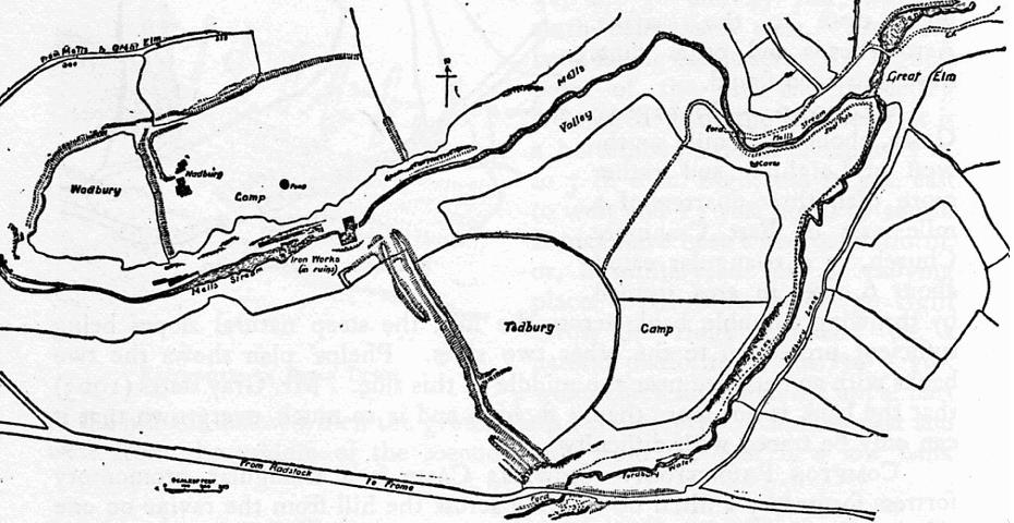 Map of earthworks at Tedbury and Woodbury Camps, Somerset, England.